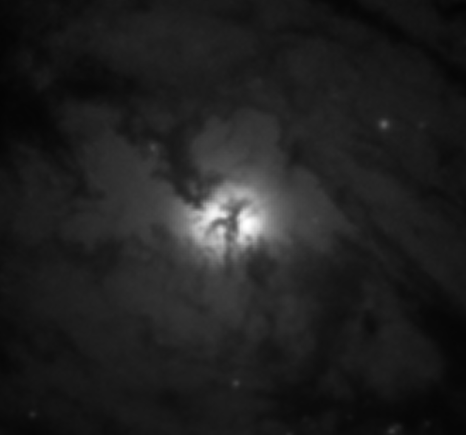 Hubble Space Telescope / Advanced Camera for Surveys image of the nucleus of M51. High-level science product data from Proposal 10452 were used to create the image. This is F555W (V band) data. Photoshop was used to adjust the image brightness and contrast to better reveal fine details within the dust structure overlapping the bright nucleus.